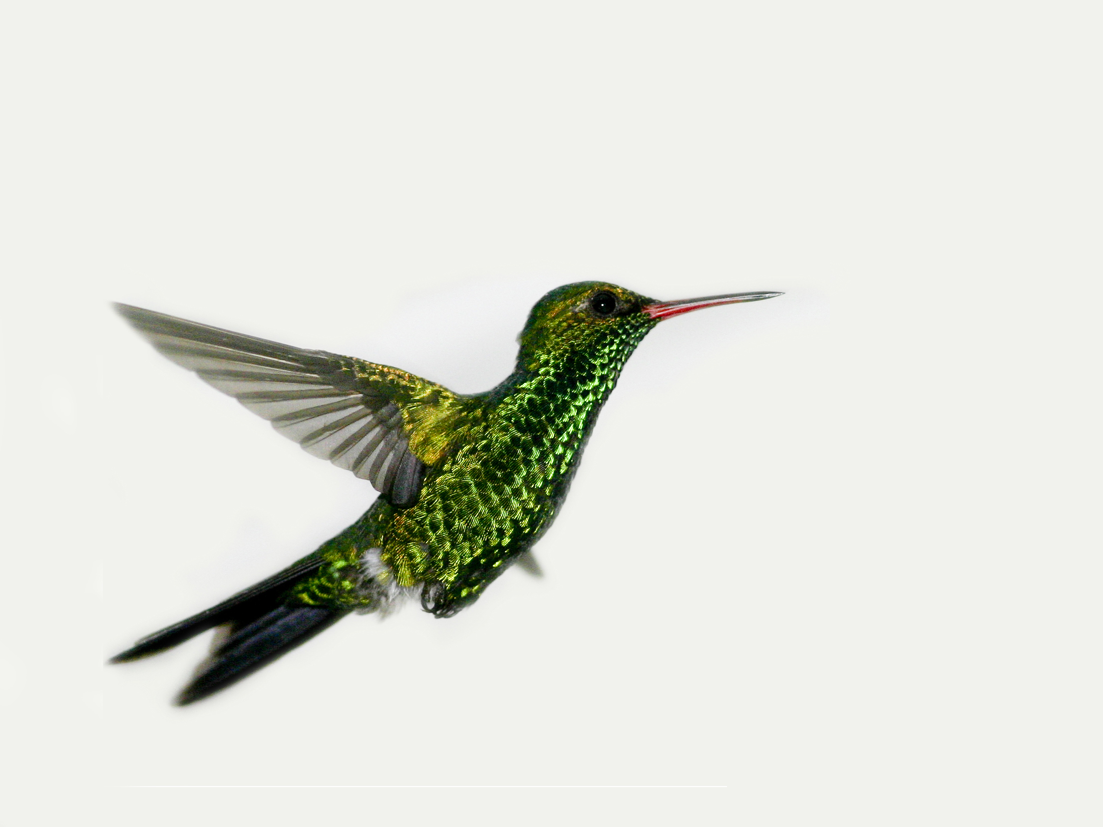 Fork-tailed Emerald (also known as Canivet's Emerald). A male from Utila, Honduras.